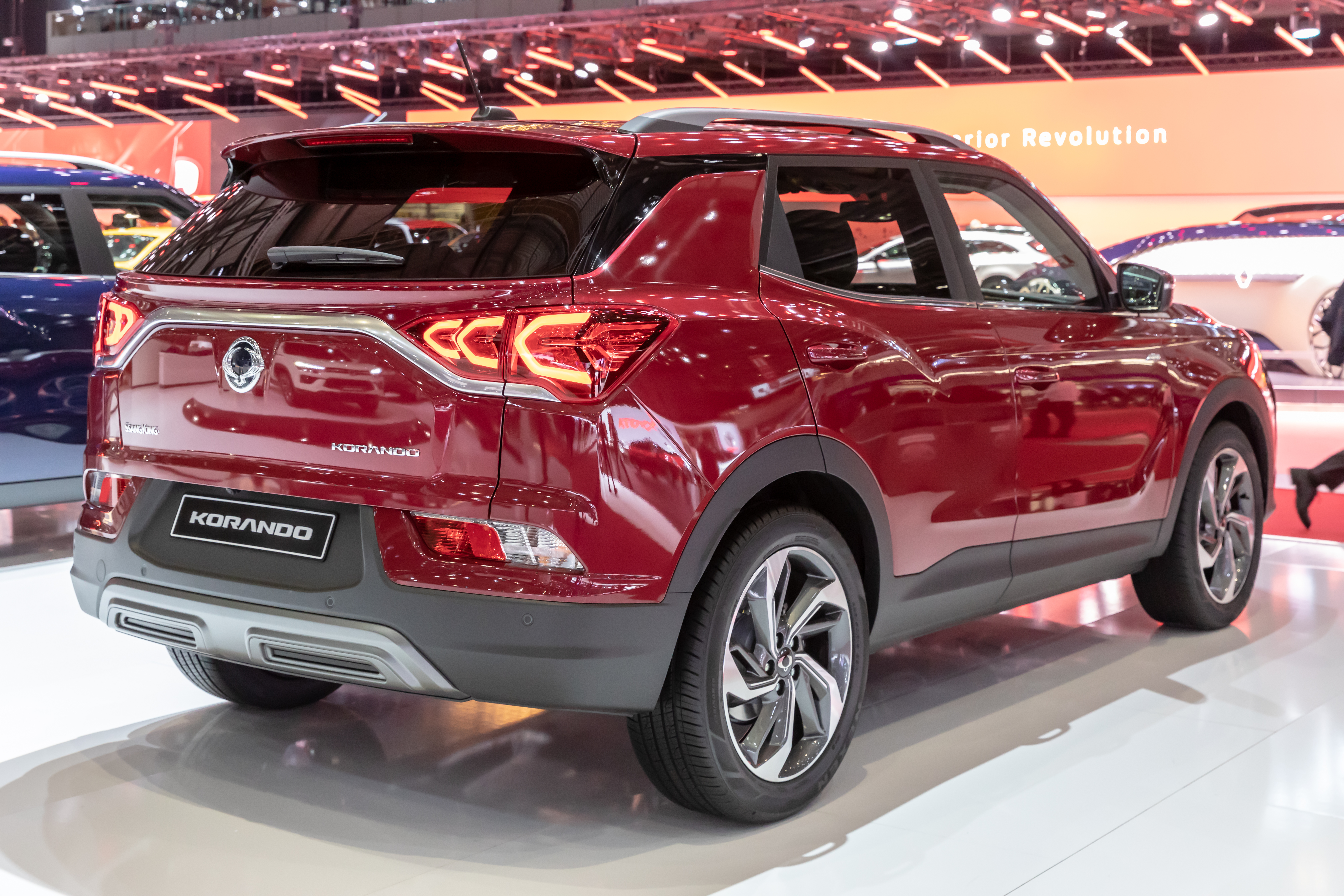 SsangYong Korando at Geneva International Motor Show 2019, Le Grand-Saconnex